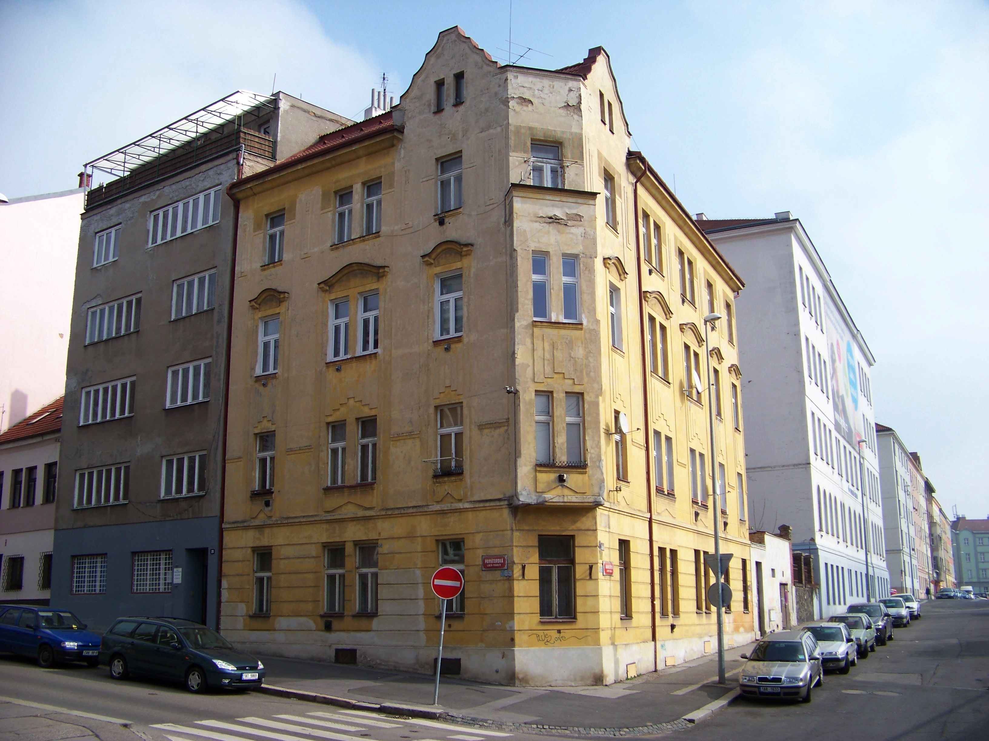 Prague-Libeň, the Czech Republic. Kandertova and Primátorská street. - OpenStreetMap(Info)